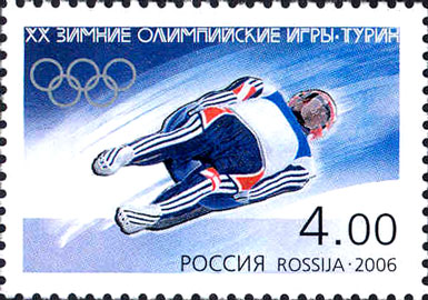 The 20th winter Olympic games. Turin. Luge.